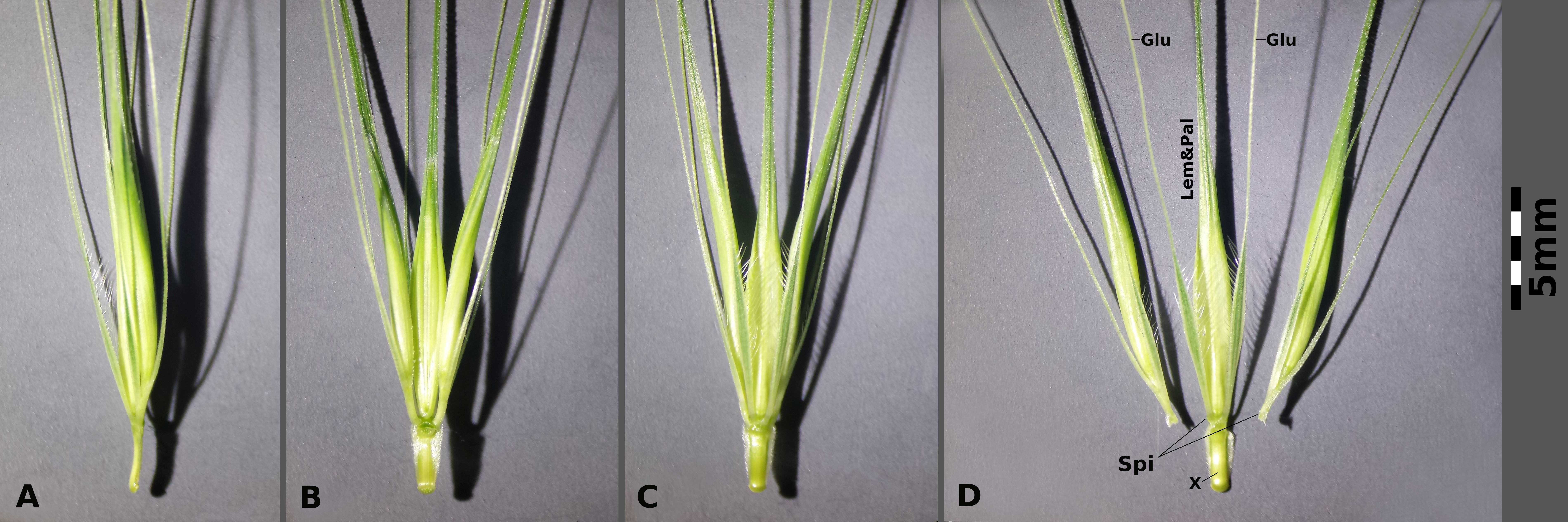 Spikelet triplet A: side view B: bottom view C: top view D: top view, disjointed Spi = Spicula Glu = Gluma Lem = Lemma Pal = Palea Taxonym: Hordeum murinum subsp. murinum ss Fischer et al. EfÖLS 2008 ISBN 978-3-85474-187-9 Location: Schwaigergasse, Vienna-Floridsdorf - ca. 160 m a.s.l. Habitat: wayside